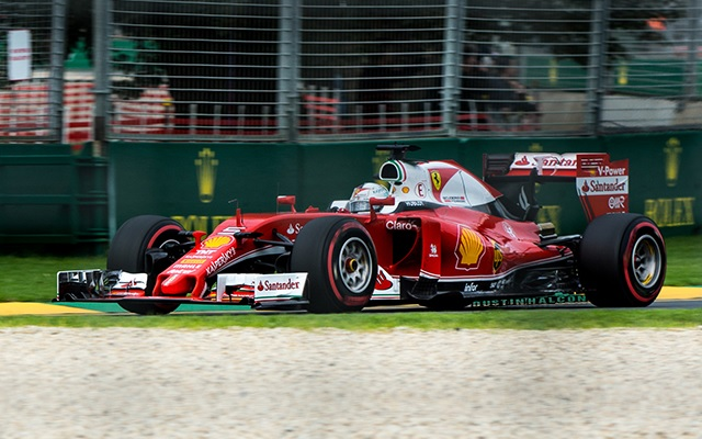 Sebastian Vettel in the 2016 Australia GP (Ferrari SF16-H)